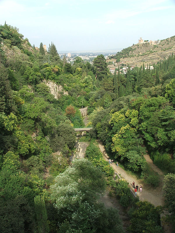 Tbilisis Botanical Garden